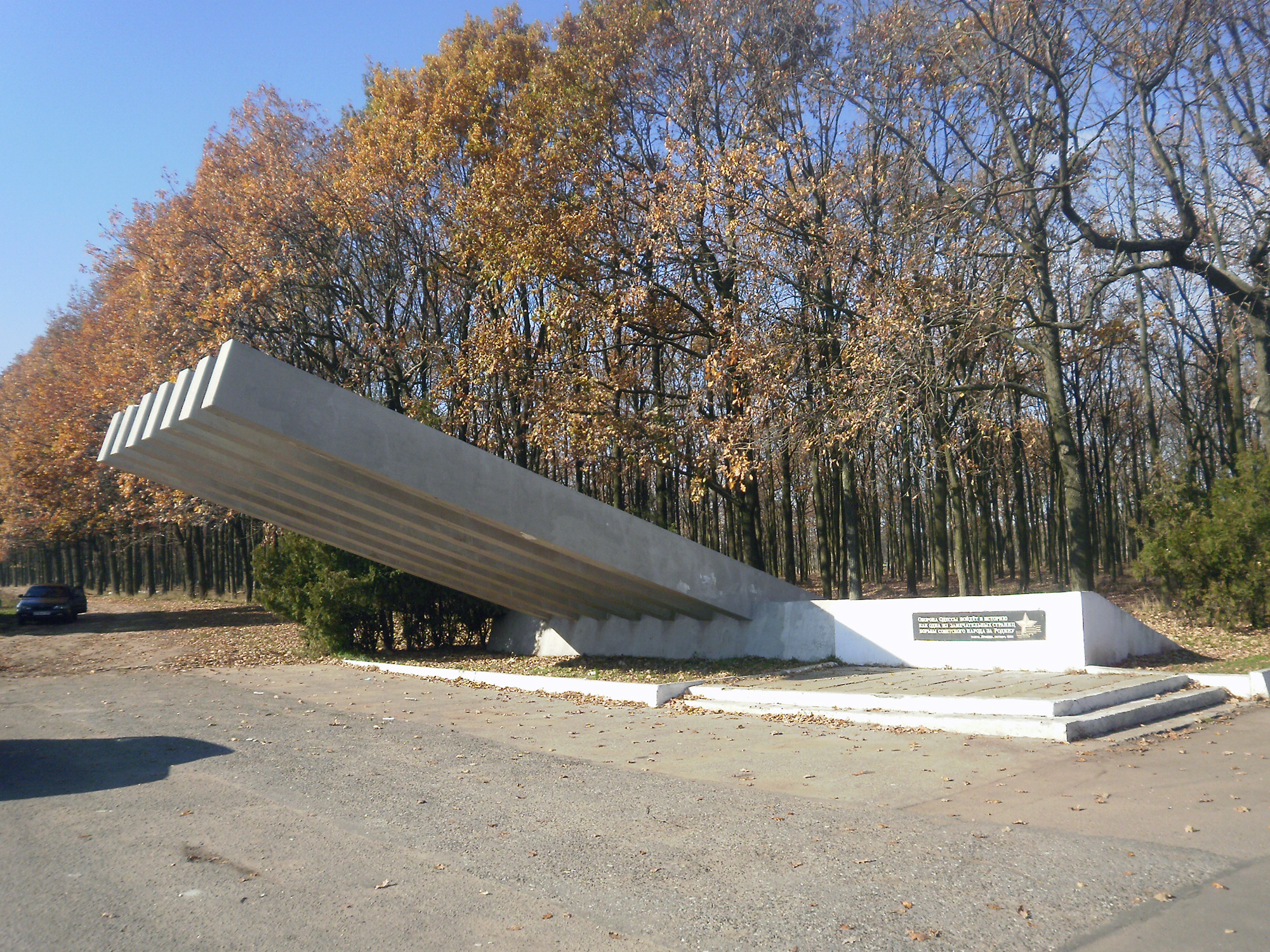 411 батарея